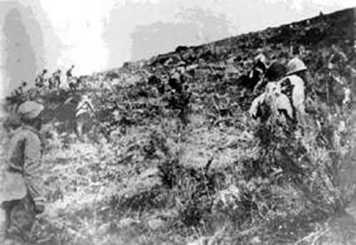 This picture was taken at 1946, the copyright has expired